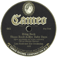 A record of Bring Back Those Rock-a-Bye Baby Days, by Lou Gold and his Orchestra